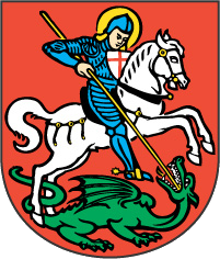 The coat of arms of Stein am Rhein, a village in Switzerland. Valid before February 2003